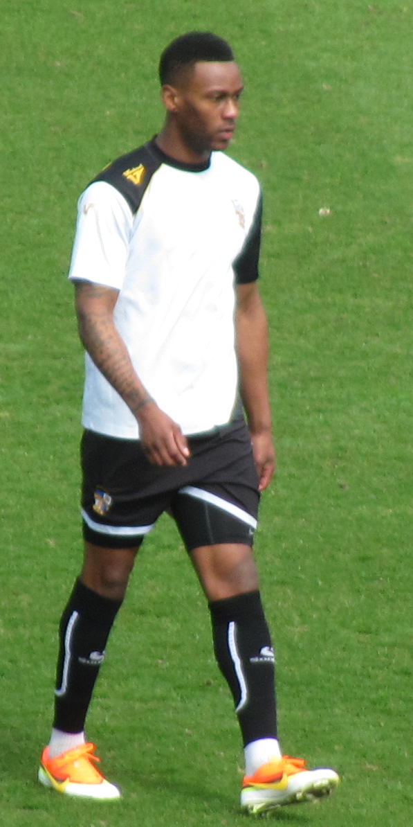 Pictured during the 2-2 draw between Port Vale and Northampton Town on 20 April 2013.